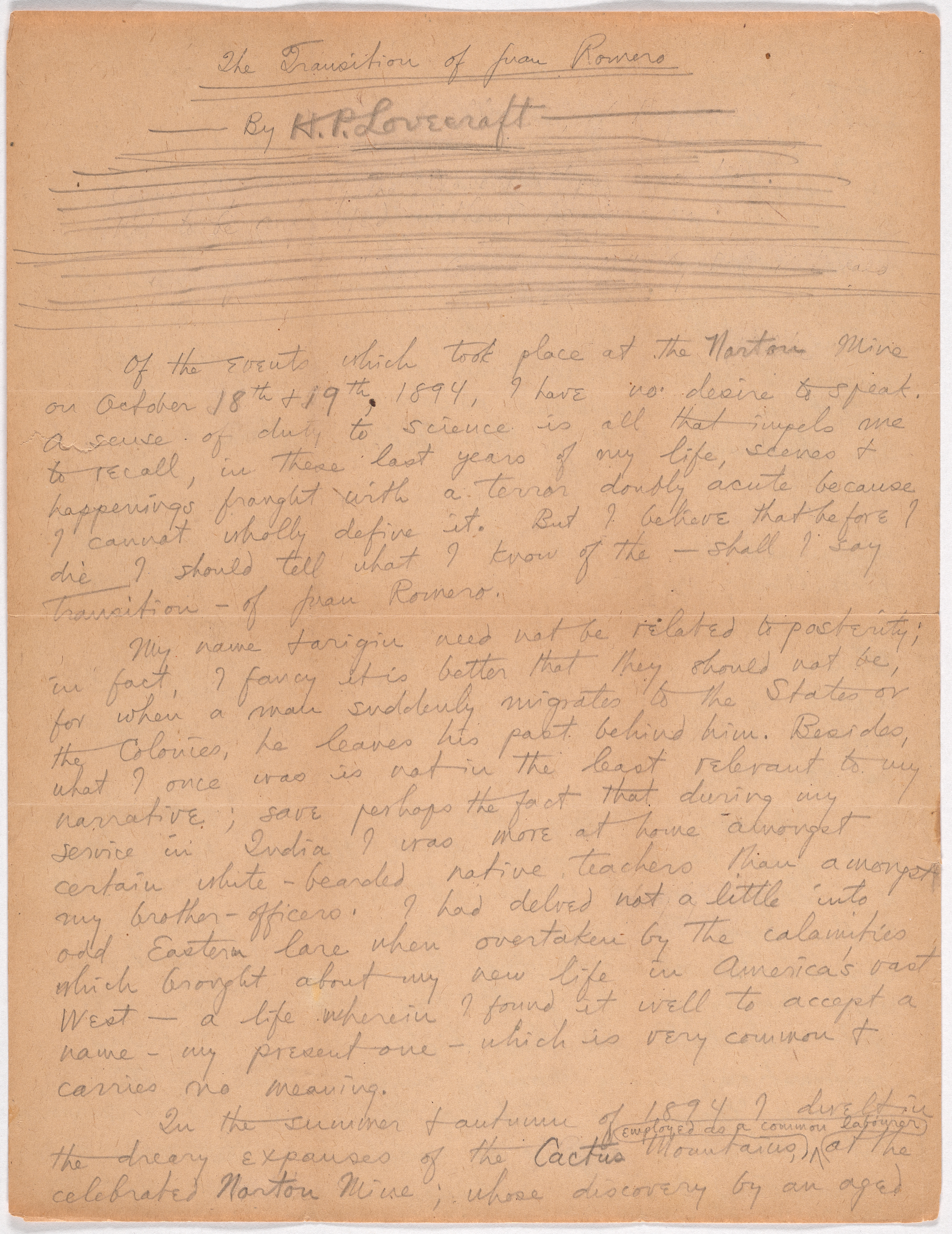 First page of the manuscript The Transition of Juan Romero.